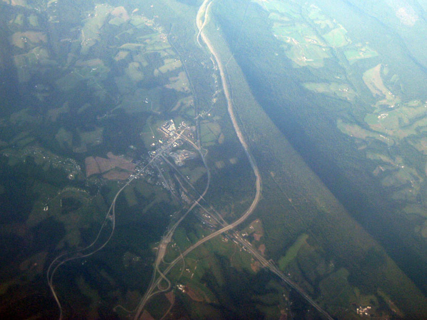 Oblique air photo of Breezewood and vicinity, facing northeast, and showing Interstate 70, the Pennsylvania Turnpike, U.S. Route 30, and Rays Hill in Bedford and Fulton Counties. 22 August 2010.